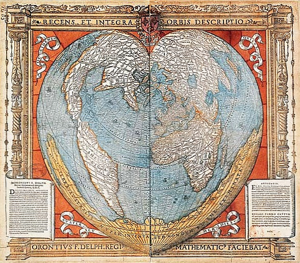 heart shaped world map 51 × 57 cm (20 × 22.4 ″)